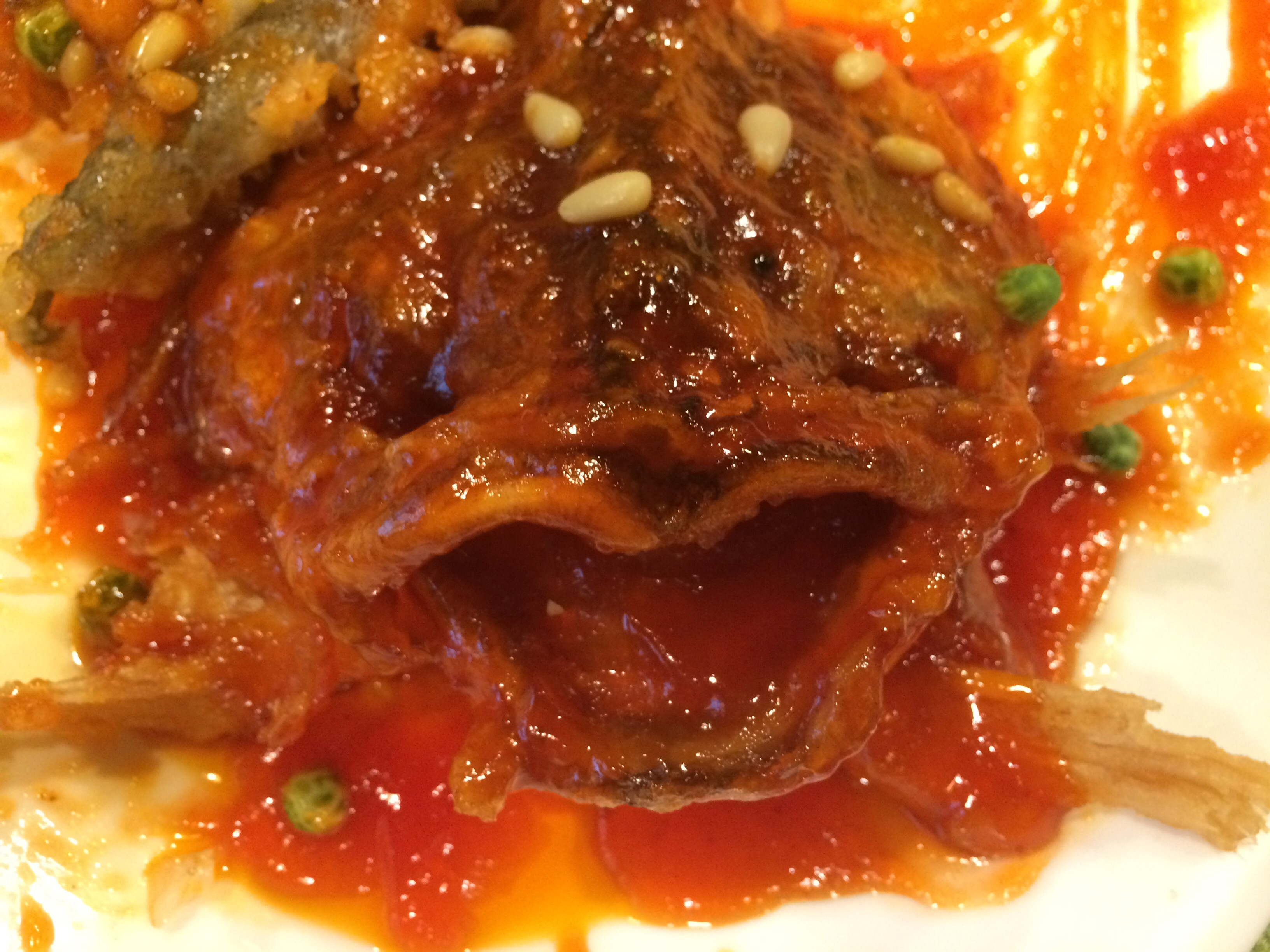 Tête de poison mandarin cuisiné - Beijing